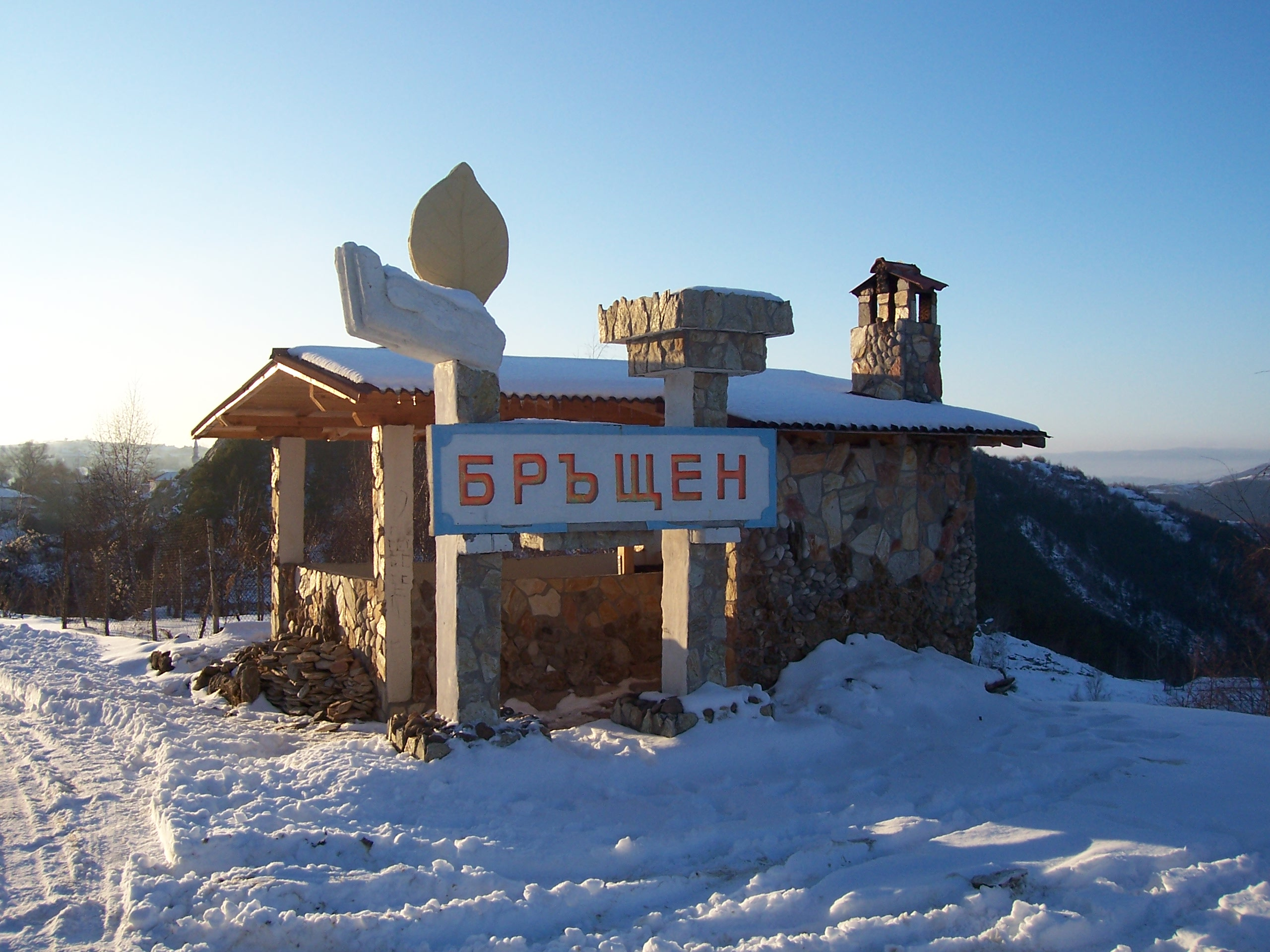 Entering the village of Brashten.